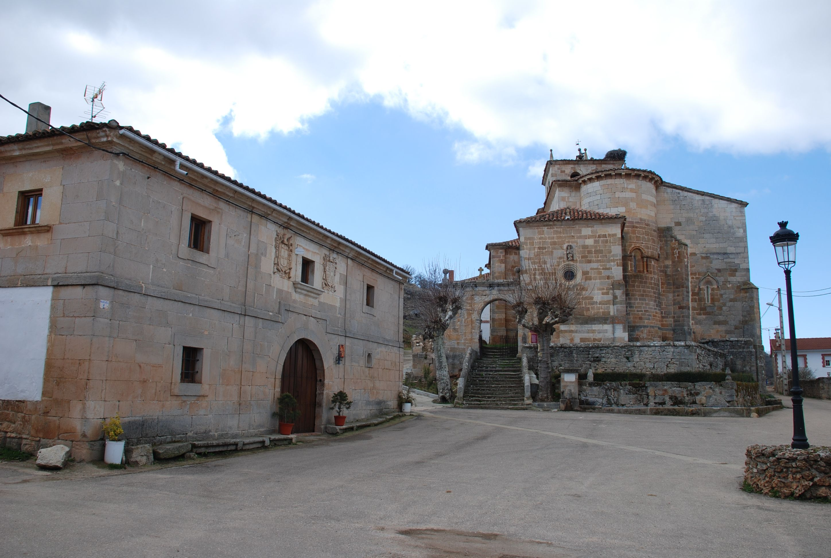 General view of Barrio de Santa María, Aguilar de Campoo (Palencia, Castile and León). Church of La Asunción in distance.